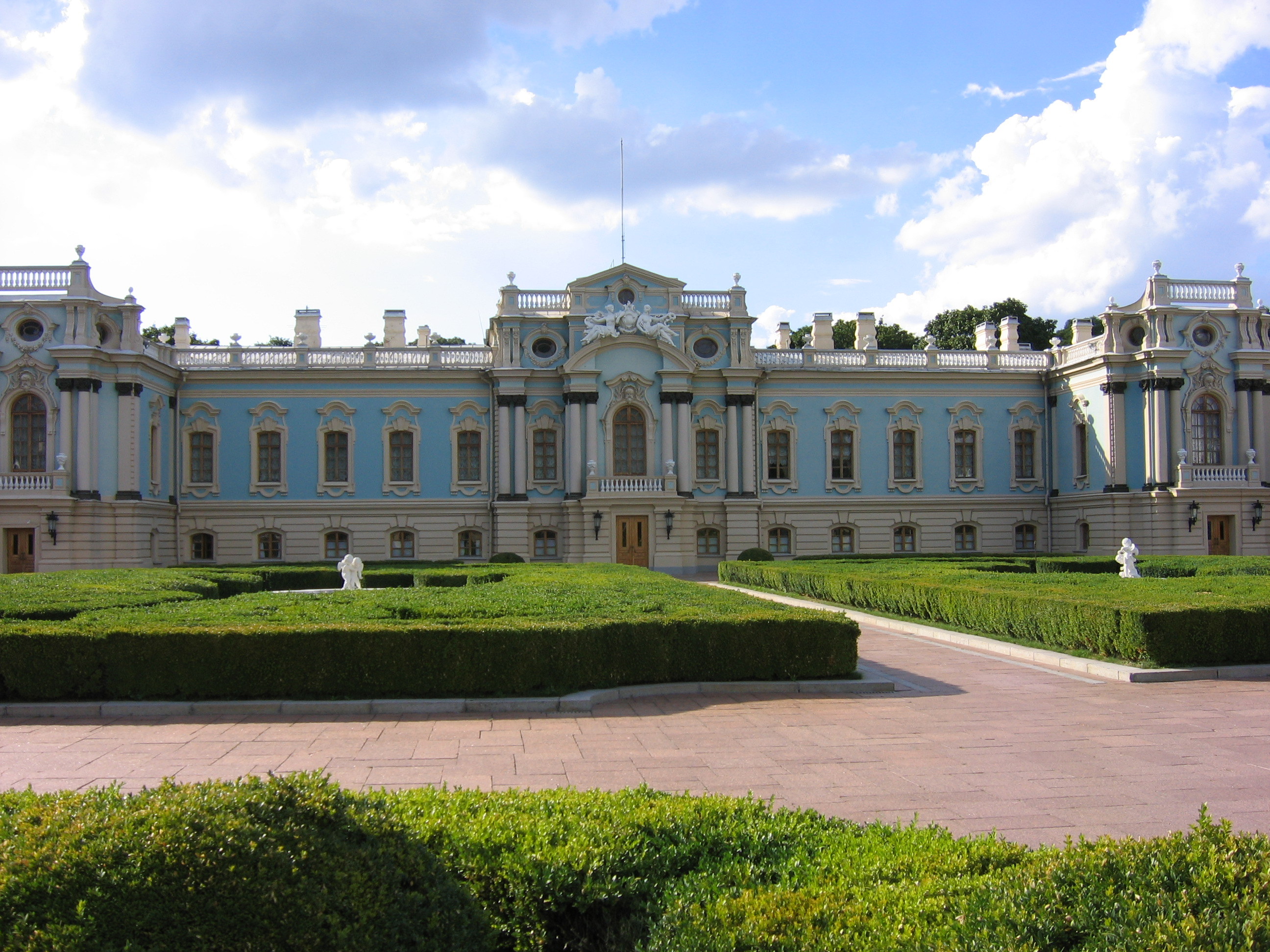 Mariinsky Palace in Kiev, Ukraine